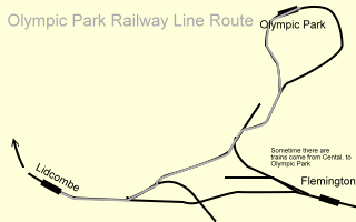 The route of Olympic Park Line